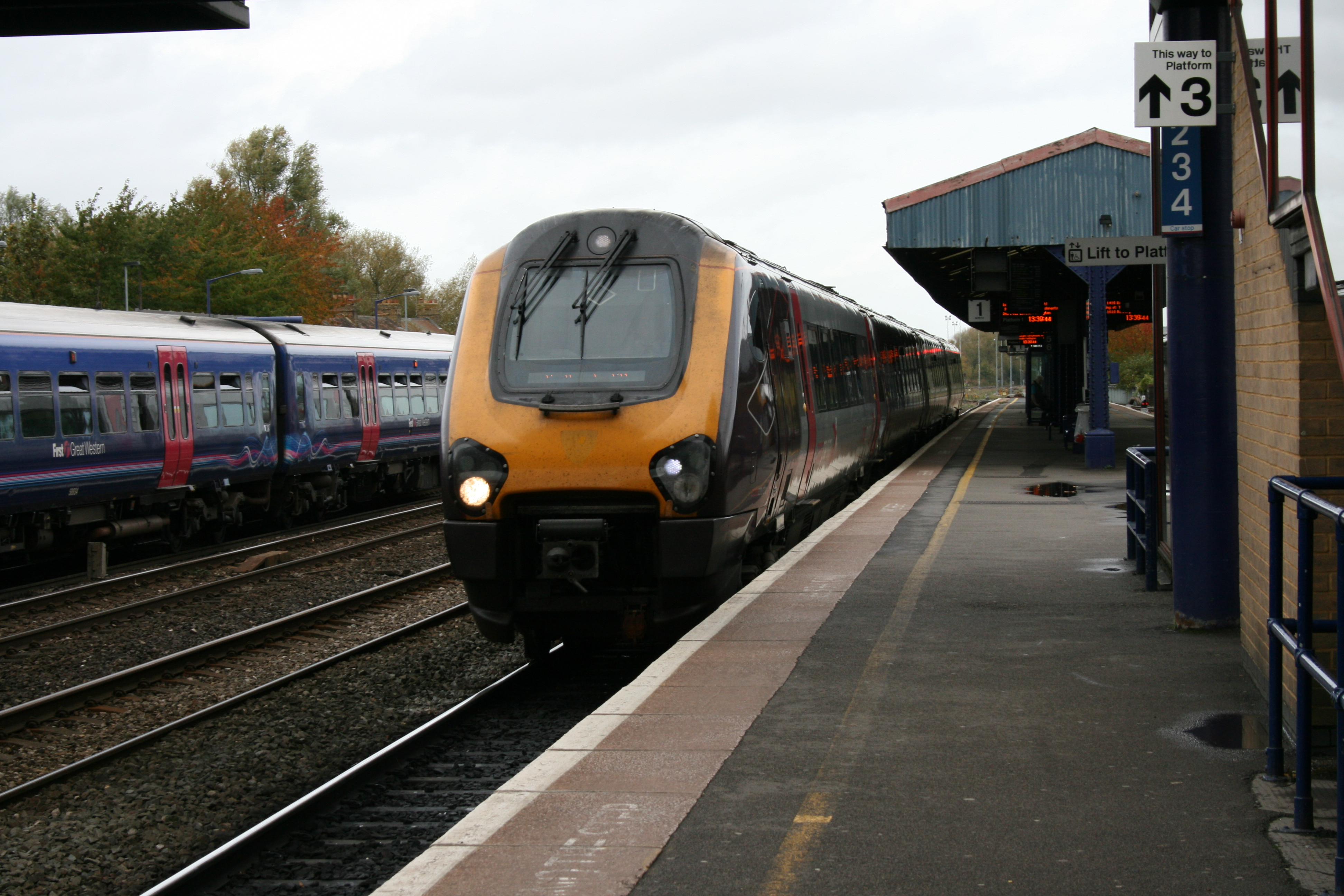 Cross Country 220xxx, Oxford